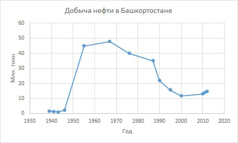 Oil of Bashkort